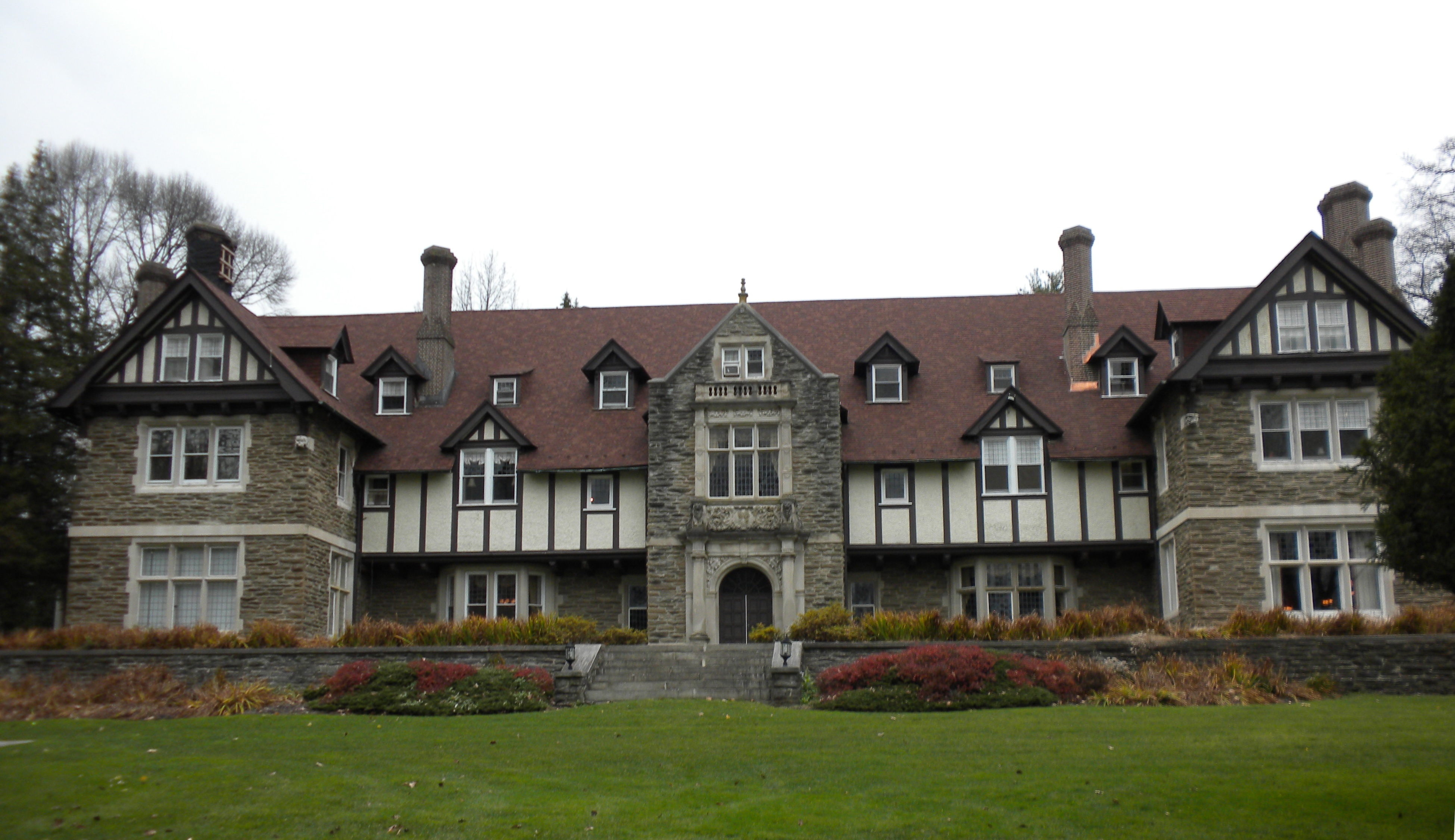 The Woodcrest Mansion on the Cabrini University campus near Wayne, PA.